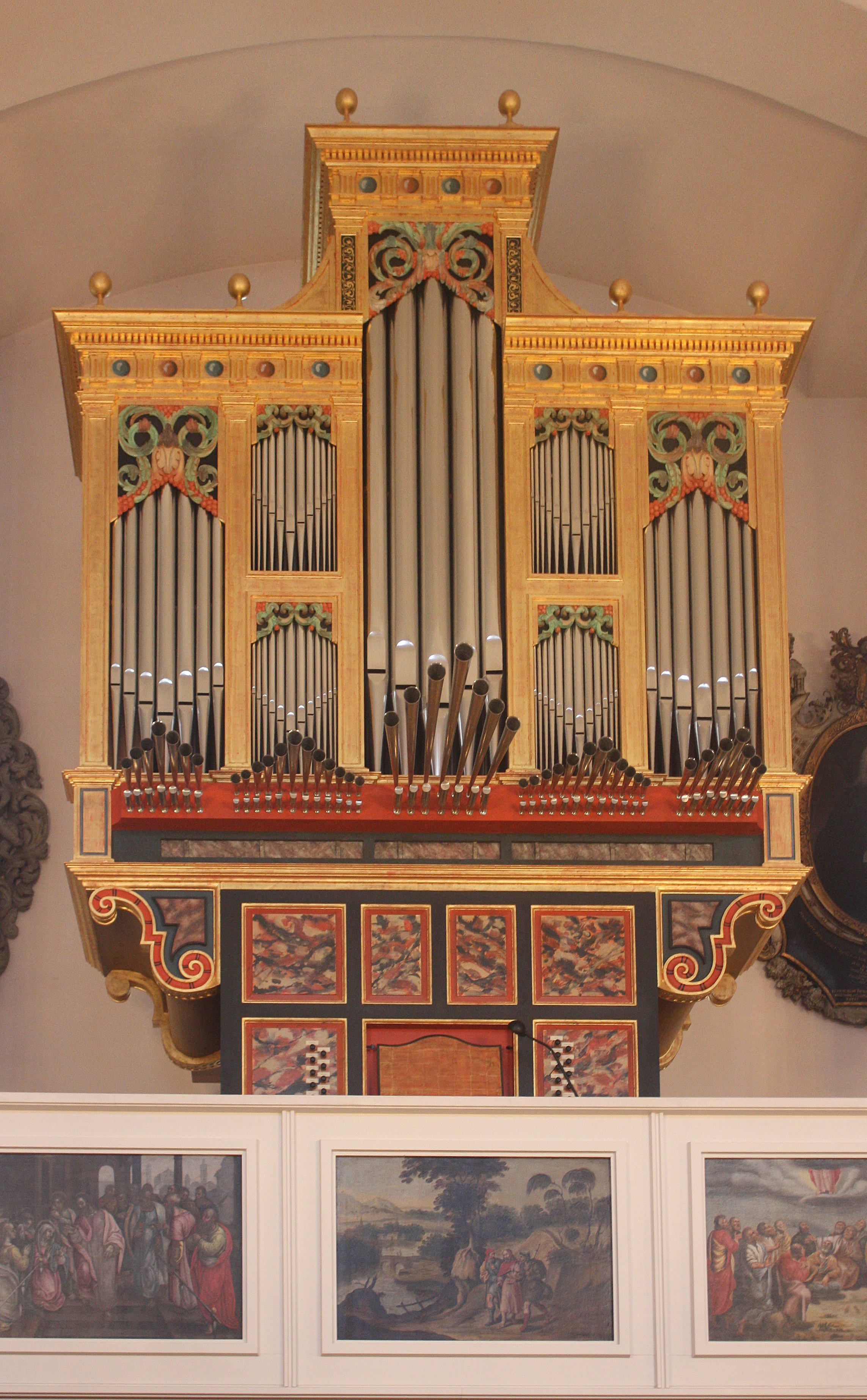 Hanover, Neustadt Royal and City Church of St. John, pipe organ